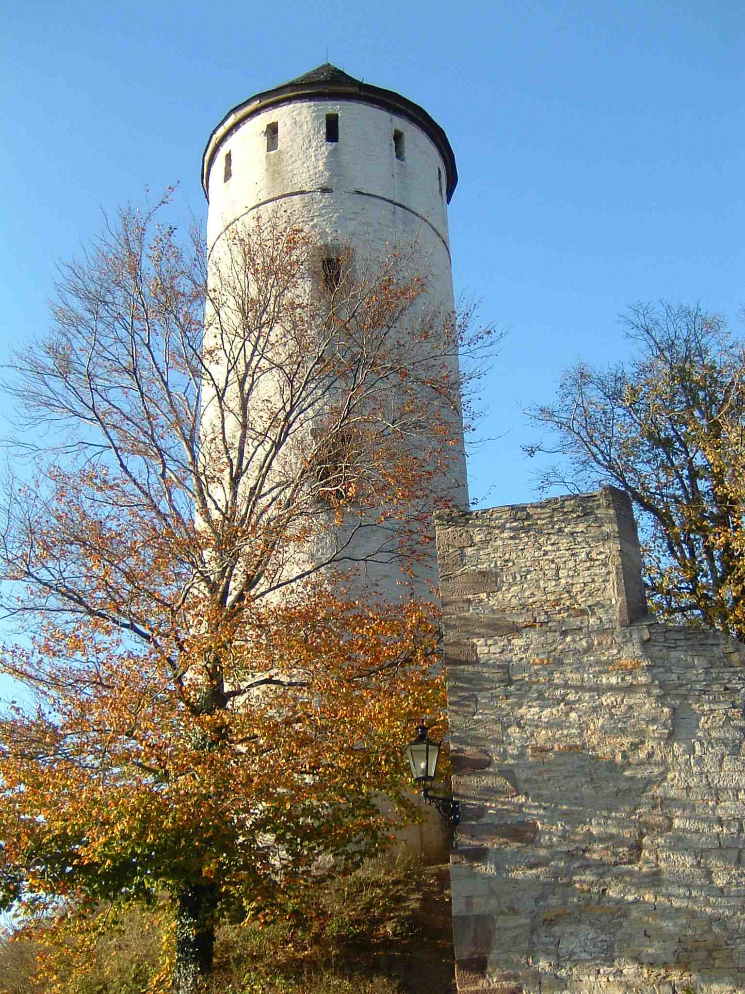 Description: – Plesse Castle, near Göttingen, Germany